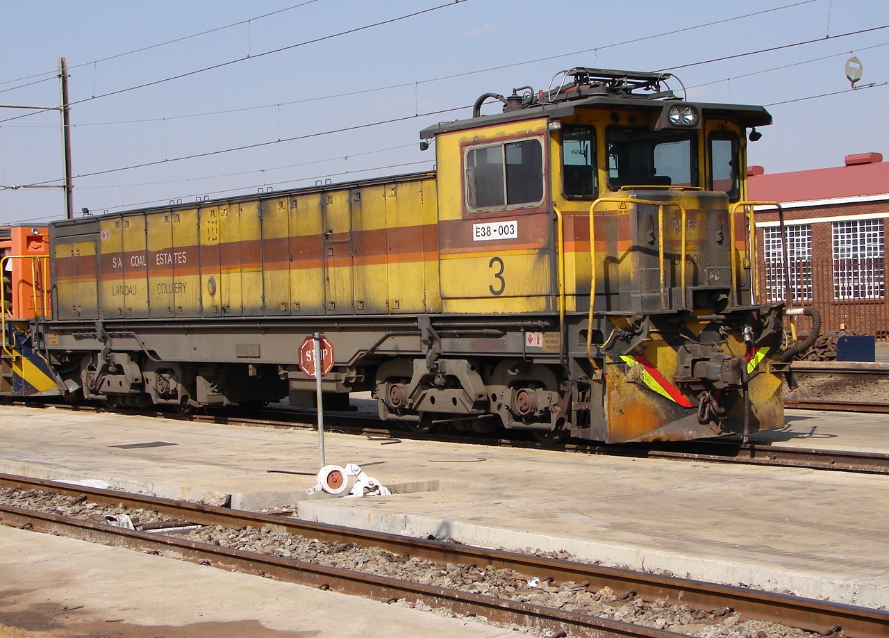 Amcoal Mines Class E38 E38-003 Location: Sentrarand, Gauteng